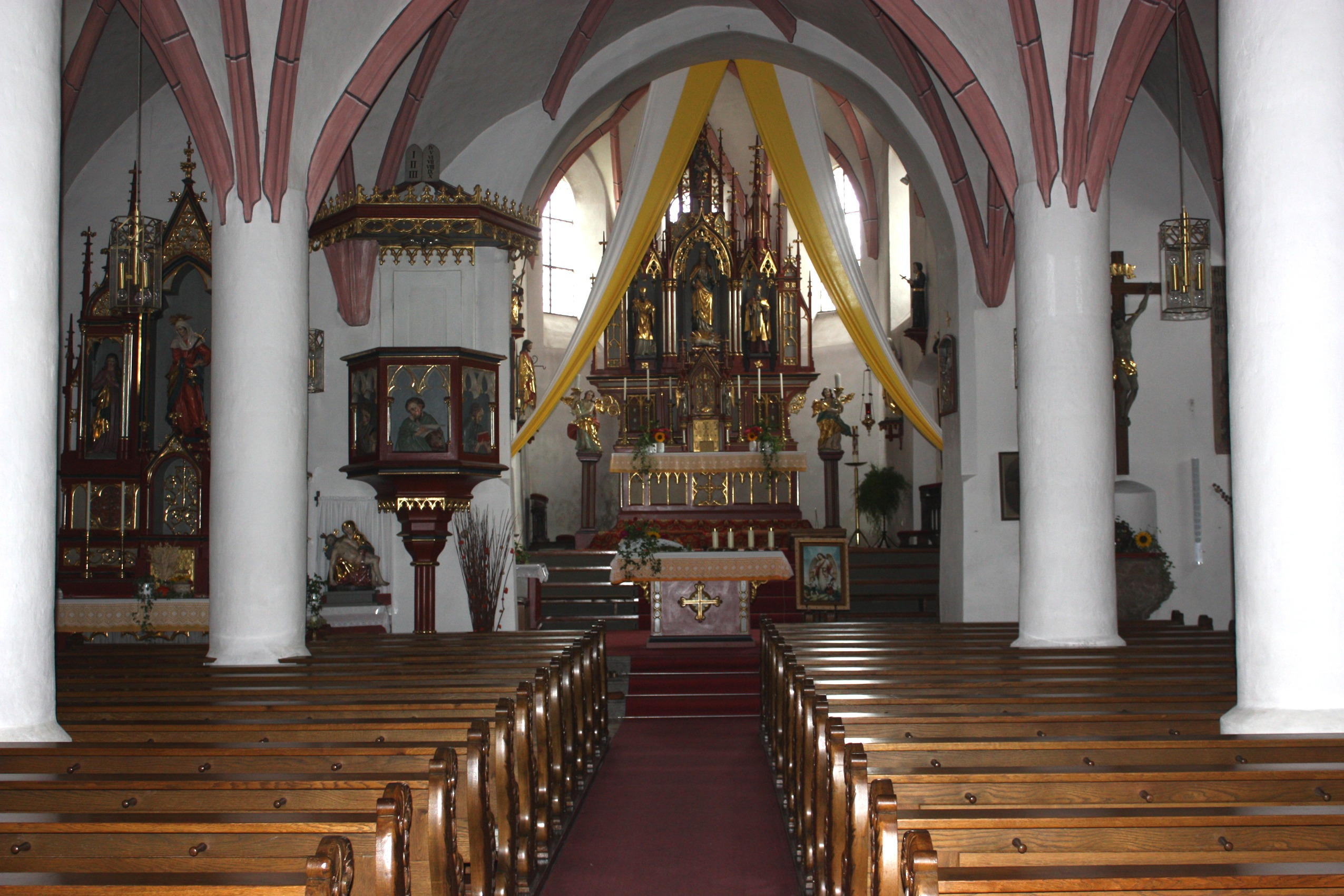 Kastl bei Kemnath, the village church, inner view